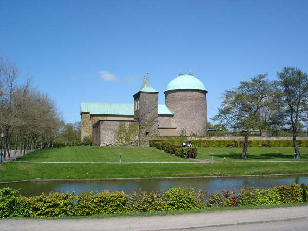 Helsingborg crematorium